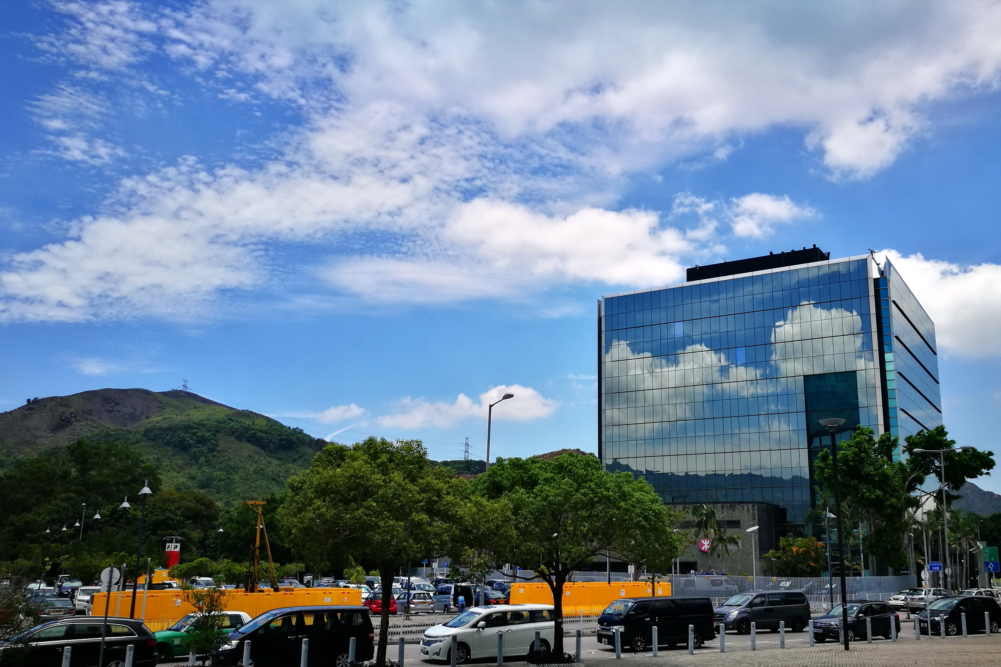 MTR Kam Tin Building, Hong Kong.